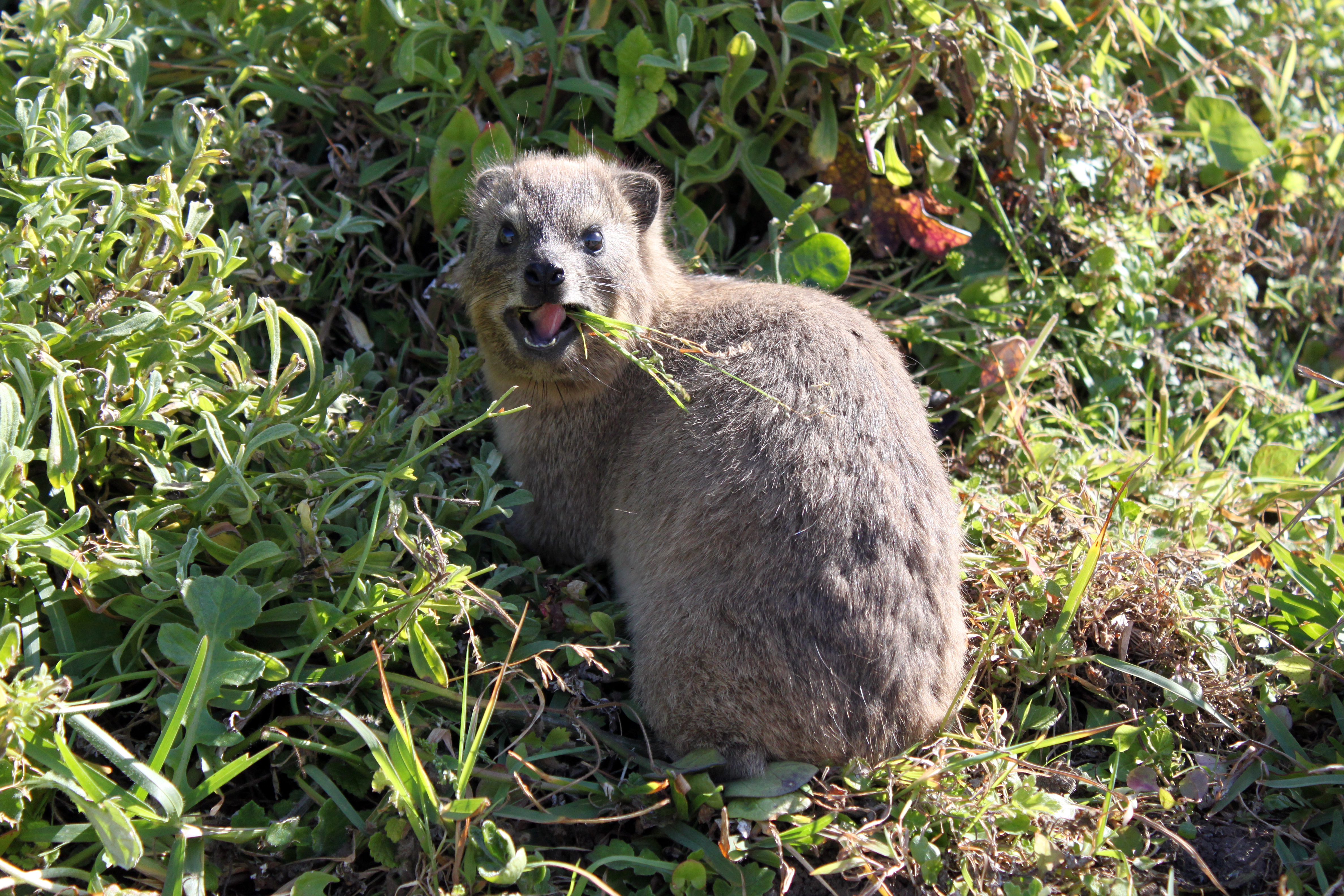 Cape Hyrax (Procavia capensis) at Tsitsikamma National Park near Storms River Mouth; South Afrika